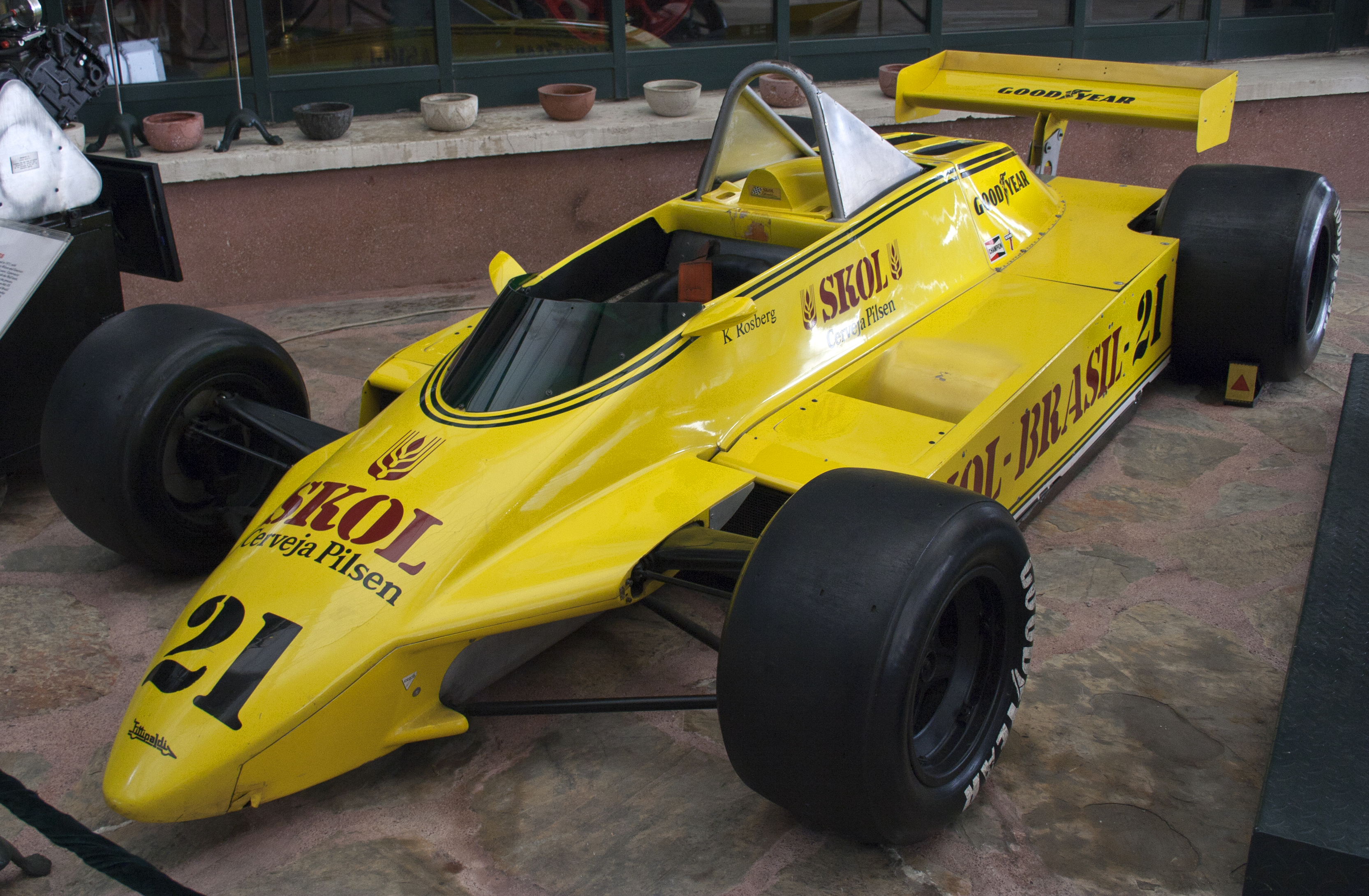 A 1980 Fittipaldi F8 (chassis #1) on display at the Rahmi M. Koç Museum of Transportation.